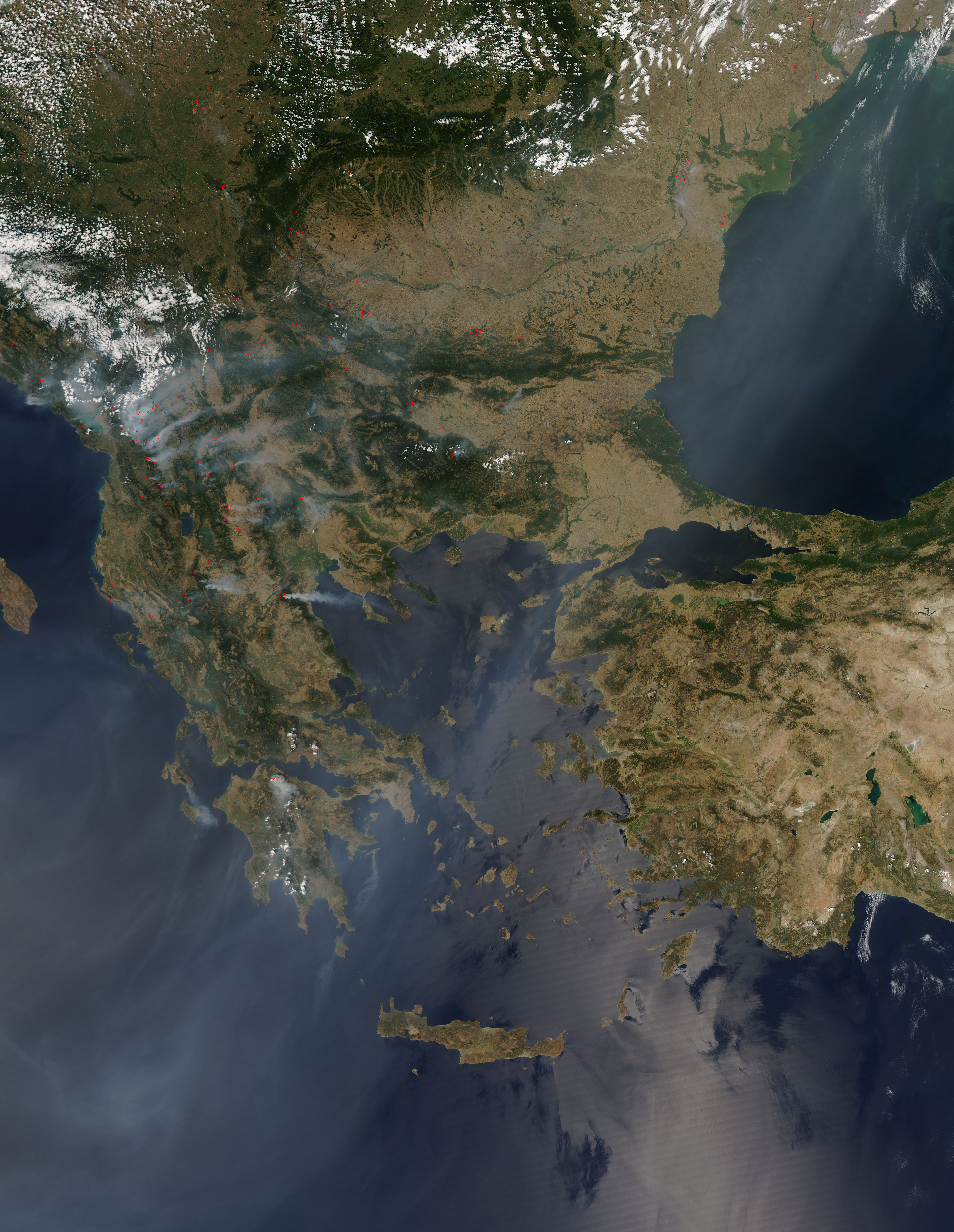 Image of the Balkan Peninsula captured by the MODIS on the Aqua satellite in July 25, 2007, and showing many fires dotting the landscape of Southern Europe. The fires, represented by red dots, pumped out thick plumes of smoke that blanketed the region with haze. A thin white-gray pall of smoke hangs over the Ionian Sea southwest of Greece, and additional smoke covers the Black Sea in the northeast. The Aegean Sea to the east of Greece likely also had smoke-filled skies, but sunlight reflecting off the surface of the water masks the haze from view in this image. The fires caused a state of emergency in Macedonia, and Greece put its northern forests under constant watch fearing further fire outbreaks, reported BBC News on July 25. The fires were fueled by extreme, desiccating heat starting in mid-July. Super-hot air pushed north from Africa and settled over much of southeastern Europe, where temperatures climbed above 40 degrees Celsius (104 Fahrenheit). As many 500 died in the heat in Hungary (north of the area shown here), and the high demand for power caused black-outs in Greece, Kosovo, and Montenegro, said the BBC. On the following month, even stronger fires outbroke in the Peloponese peninsula.